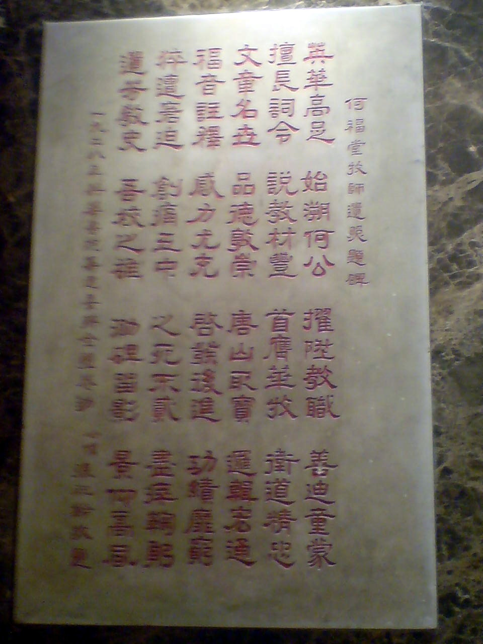 At Ying Wa College's museum, a plaque on the funerary monument of the Rev. Hoh Fuk Tong (1817–1871), a Christian missionary who was a student then a pastor.